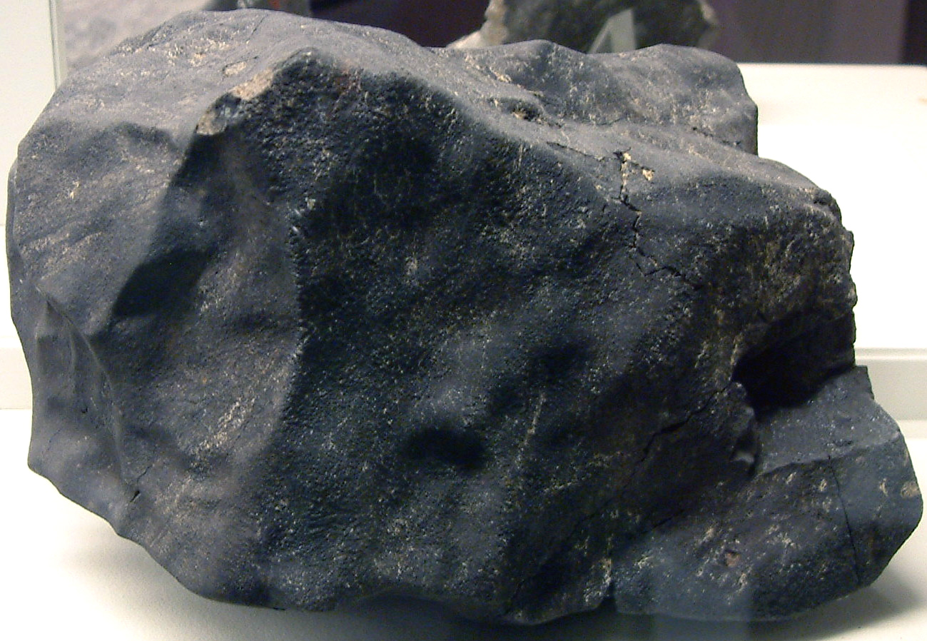 Carbonaceous chondrite - large individual of the Murchison Meteorite with fusion crust. FMNH Me 2640 (Field Museum of Natural History meteorite collection, Chicago, Illinois, USA). Carbonaceous chondrites are dark gray to blackish-colored chondrite meteorites with a relatively carbon-rich matrix. The Murchison Meteorite is a famous carbonaceous chondrite. It landed on Earth in in the late morning on 28 September 1969 in Victoria, Australia. Samples were quickly recovered to minimize contamination with Earth materials. Murchison is important for containing extraterrestrial amino acids. Amino acids are the “building blocks” of life on Earth. This discovery demonstrated that these organic molecules may have originally appeared on Earth not by chemical synthesis in the early oceans (although that is still a strong possibility), but may have arrived from outer space.